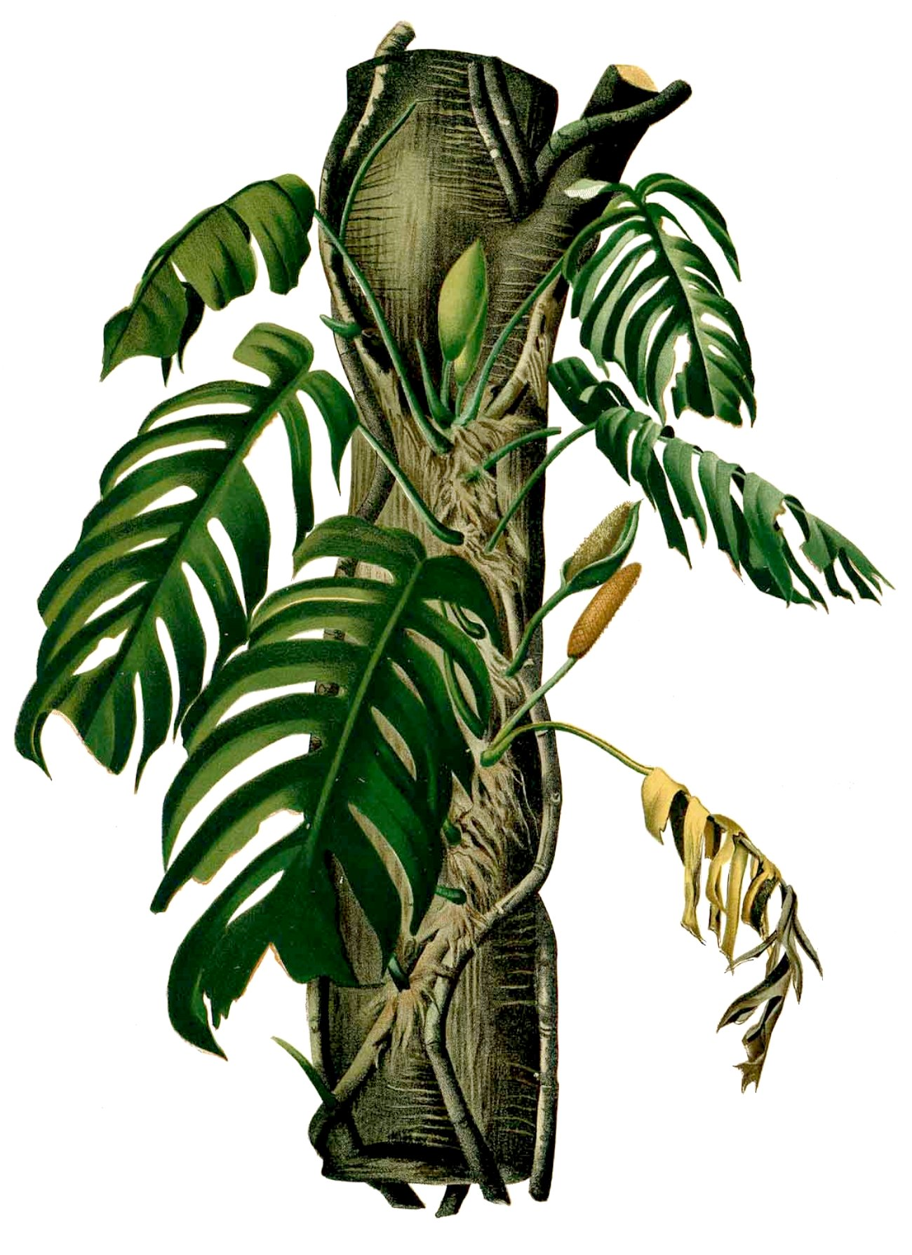 Plate from book